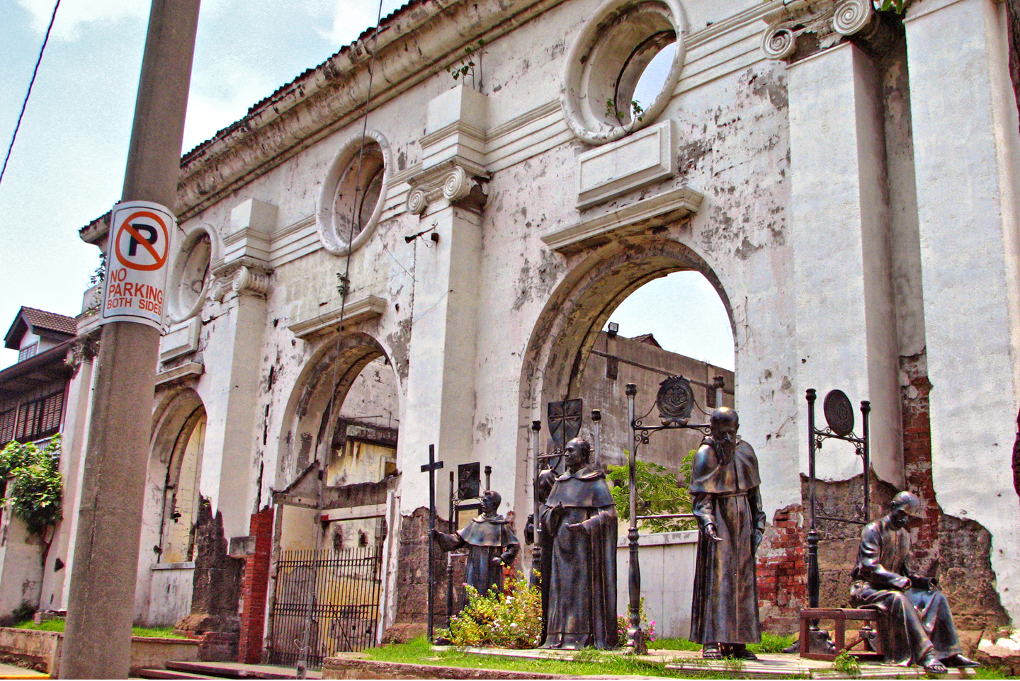 Located in Intramuros, Manila which was theseat of government during the Spanish Occupation. It was designed by Felix Roxas, Sr. who was the first Filipino Architect.